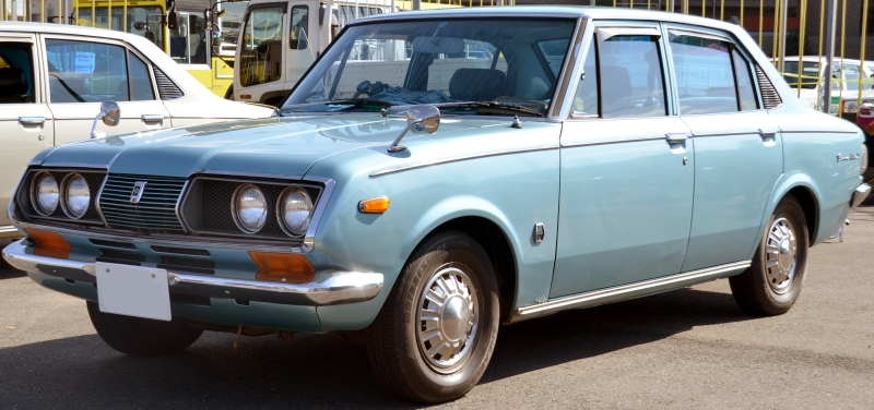 Toyota Corona Mark II Deluxe